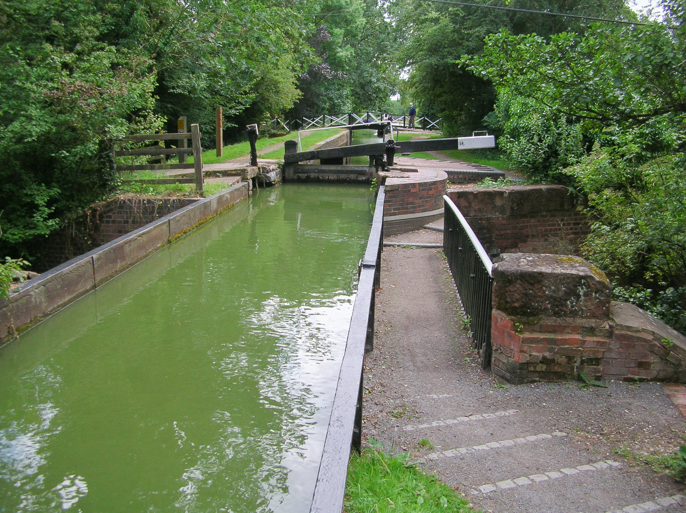 The 1834 Yarningale Aqueduct on the Stratford-upon-Avon Canal. This is a Grade II* Listed Building in England.